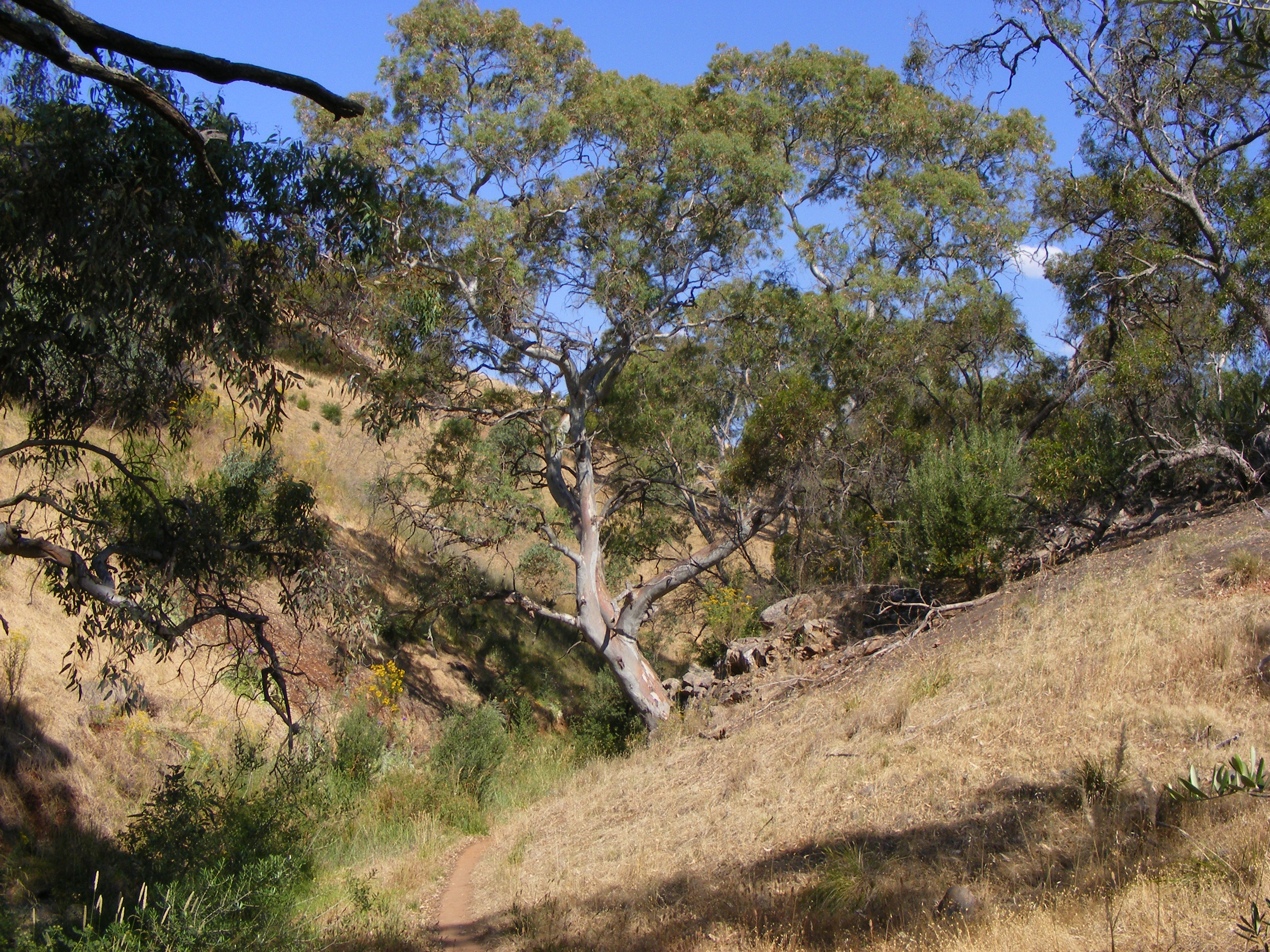 a River Red Gum (Eucalyptus camaldulensis) in , Adelaide, South Australia.